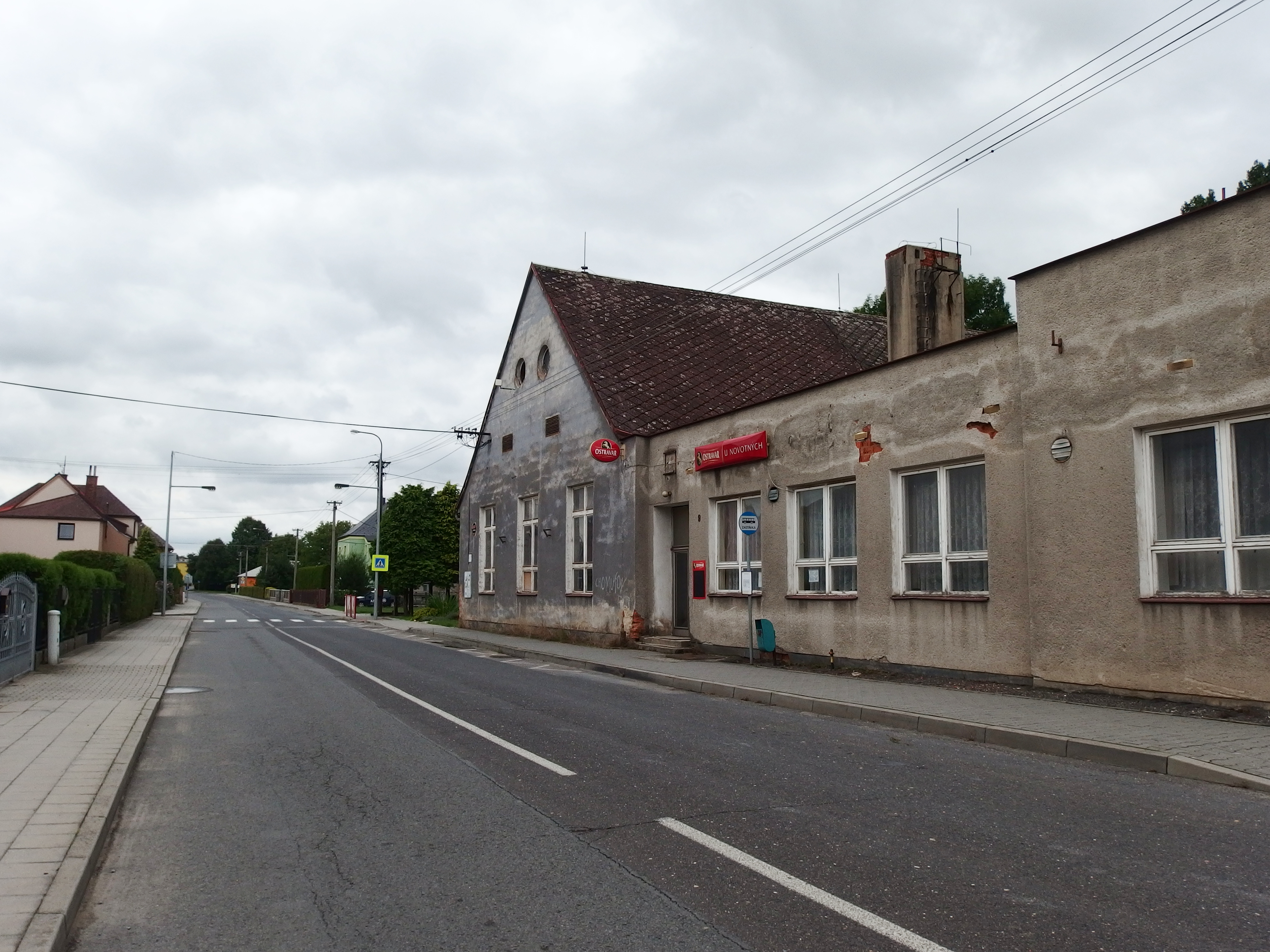 Hlučín, Opava District, Czech Republic, part Darkovičky.